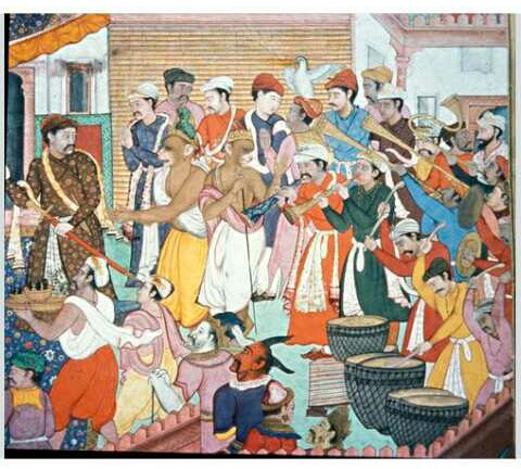 By Kesav & chitarmuni to